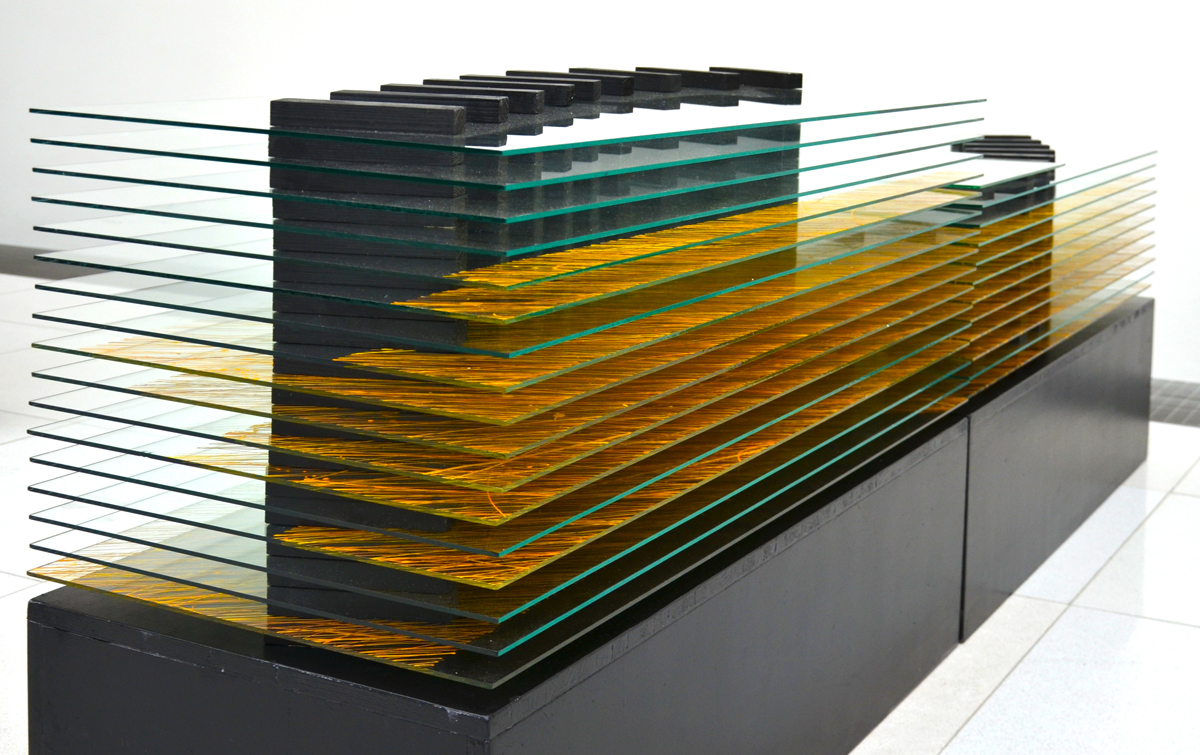 Jiřina Žertová, Viaduct (R), 65x200x45cm, 1999